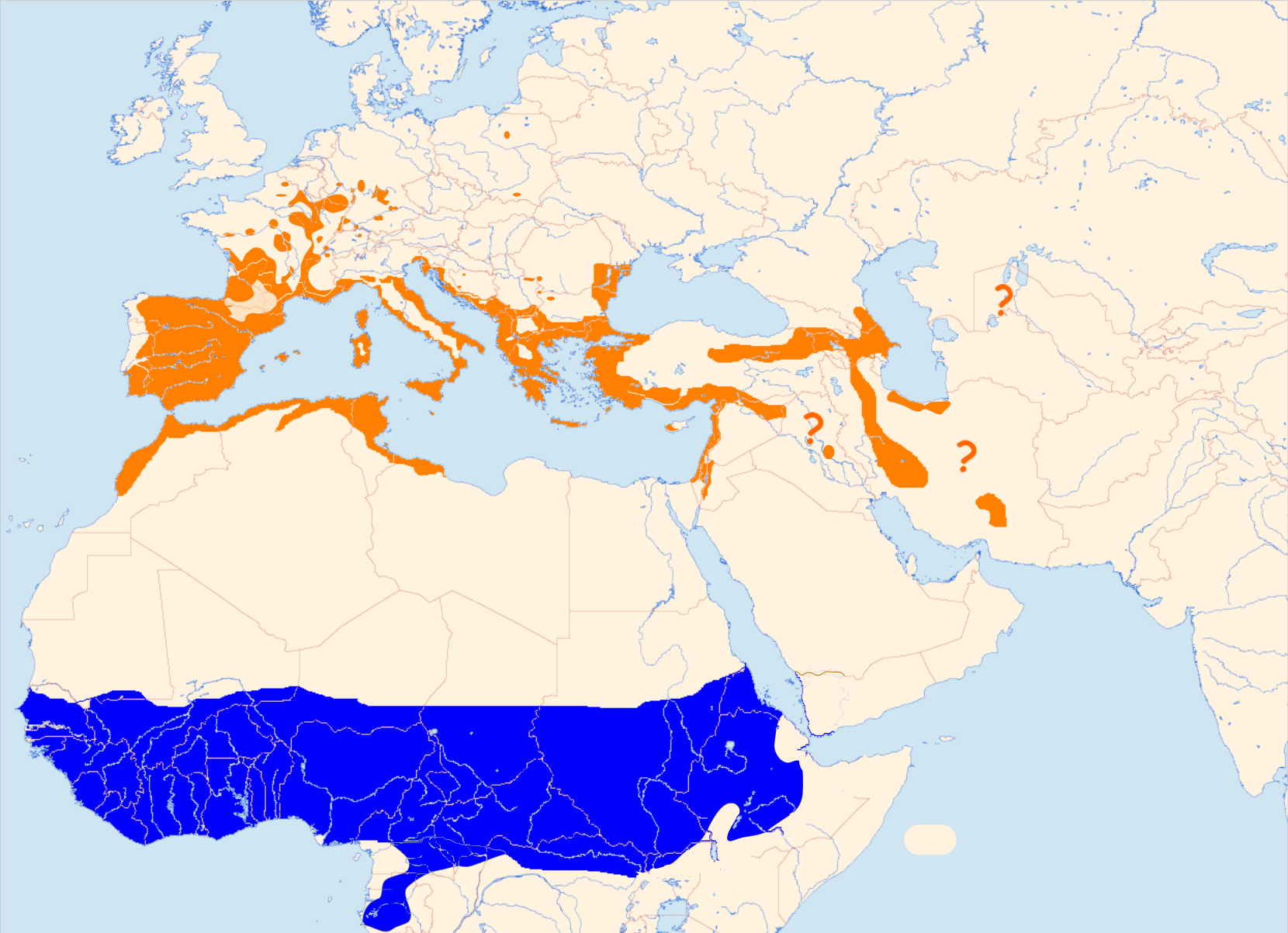 Woodchat Shrike - Distribution